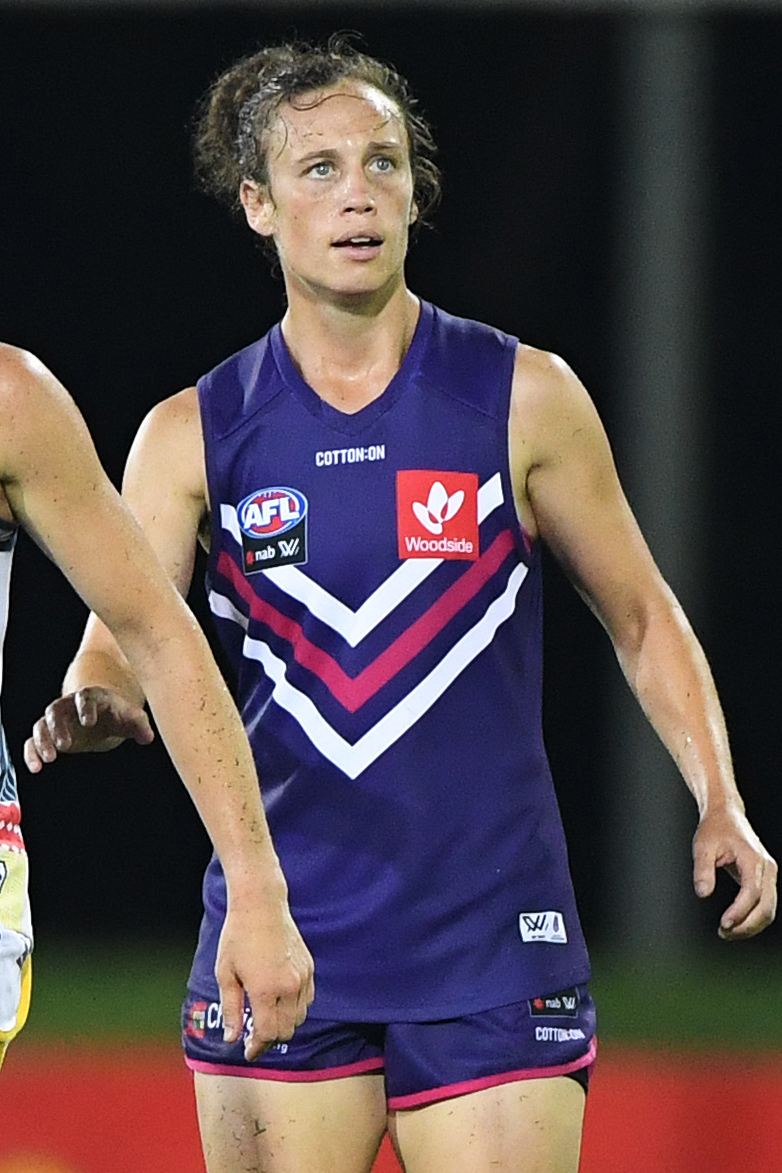 Brianna Moyes of Fremantle during the 2019 AFL Women's practice match between the Adelaide Football Club and Fremantle Football Club at TIO Stadium on January 19, 2019 in Darwin Australia.